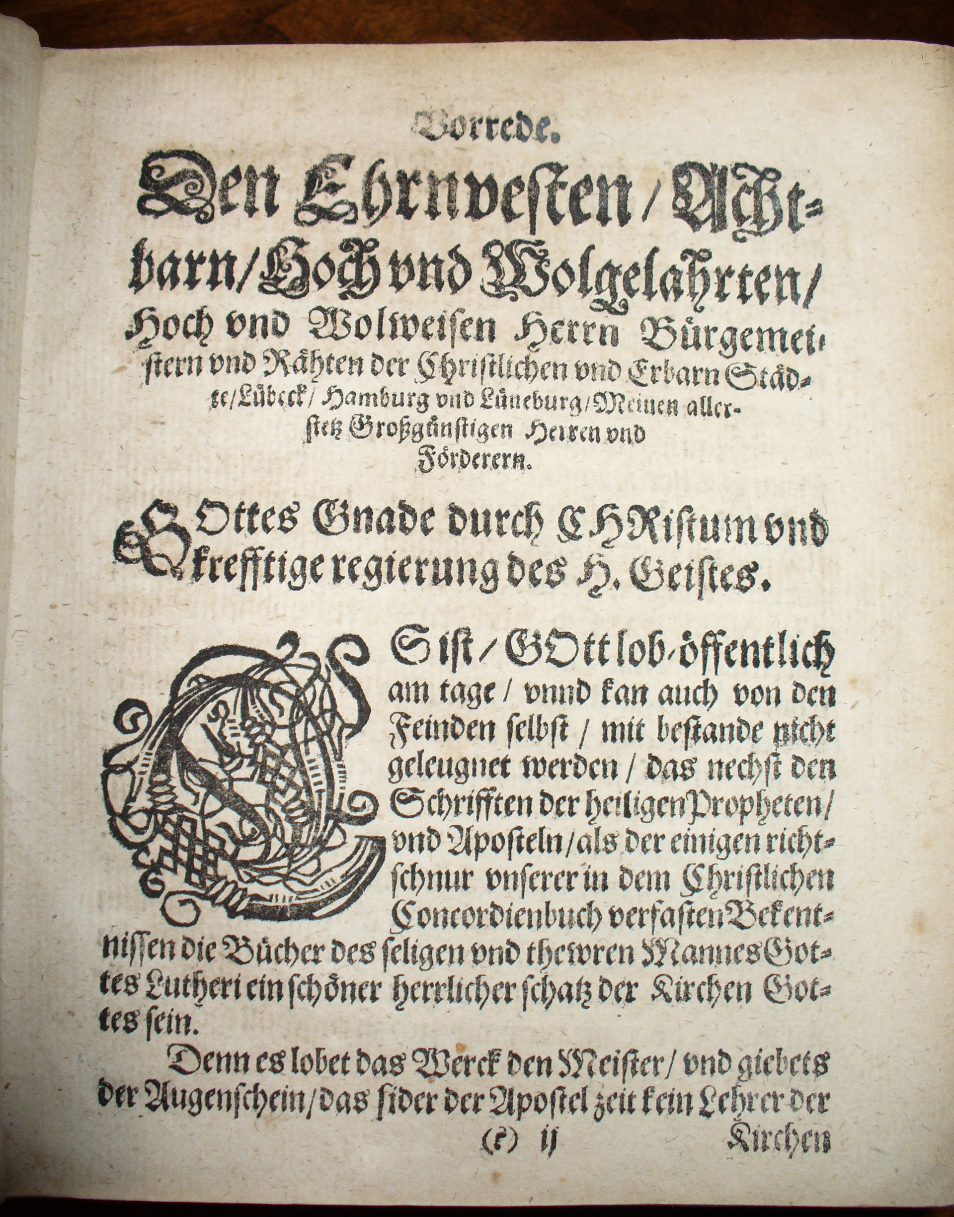 First page of preface by Theodosius Fabricius in 1597 Loci Communes